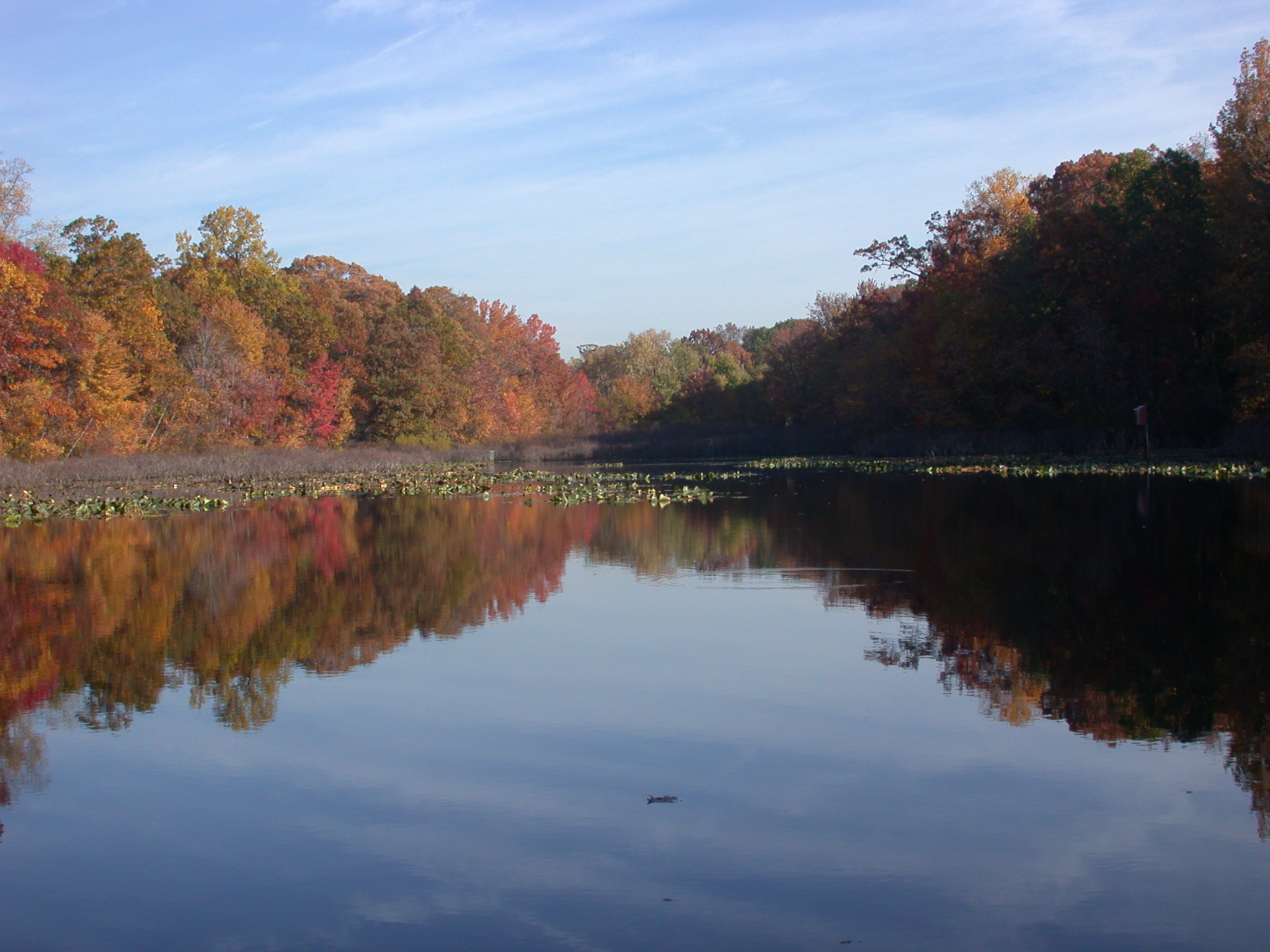 This is a photo of Pfister's Pond at the Tenafly Nature Center in Tenafly, NJ. It was on November 4, 2005 with a Nikon Coolpix 995 camera.